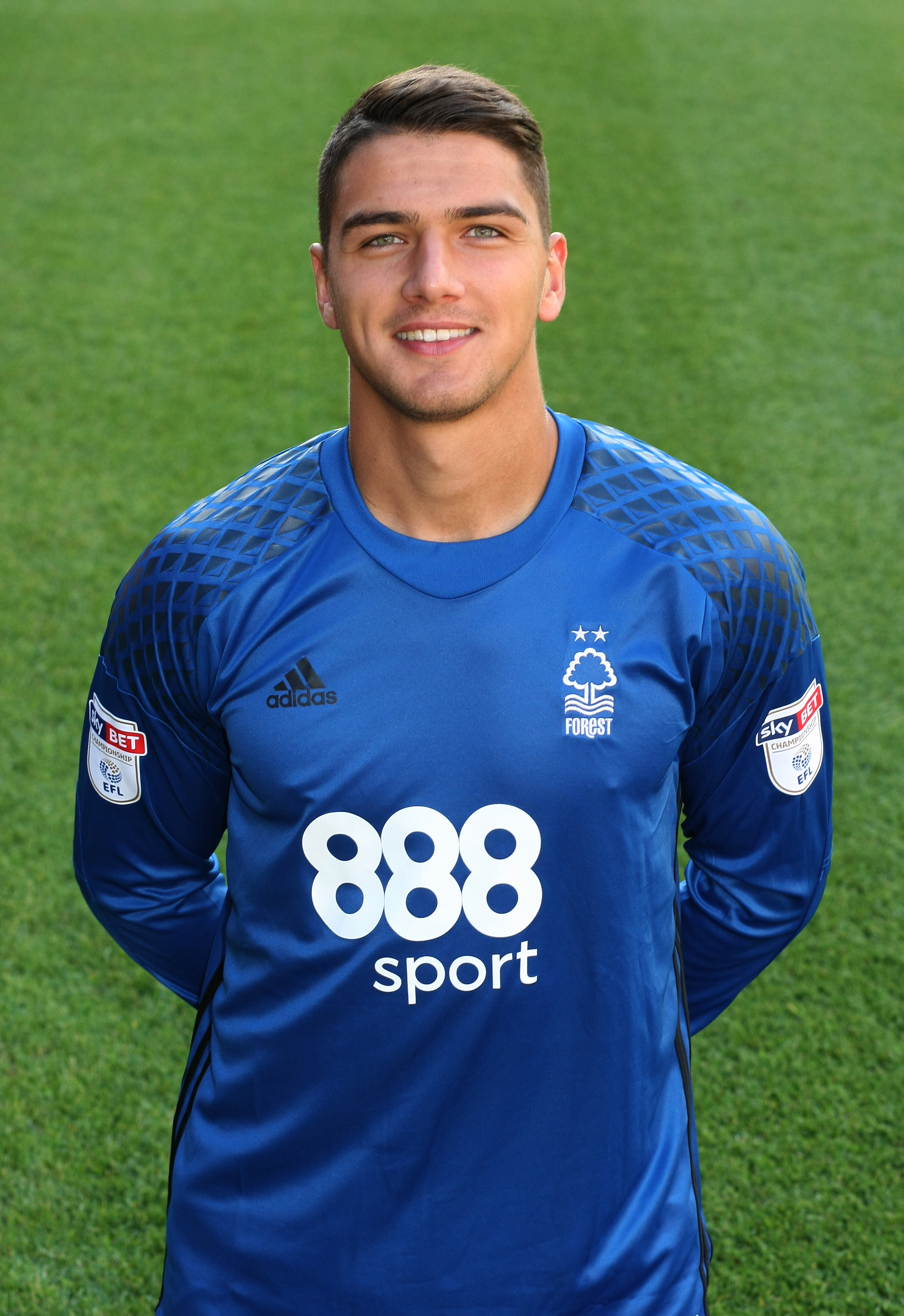 Dimitar Evtimov in Nottingham Forest goalkeeper kit, 2016